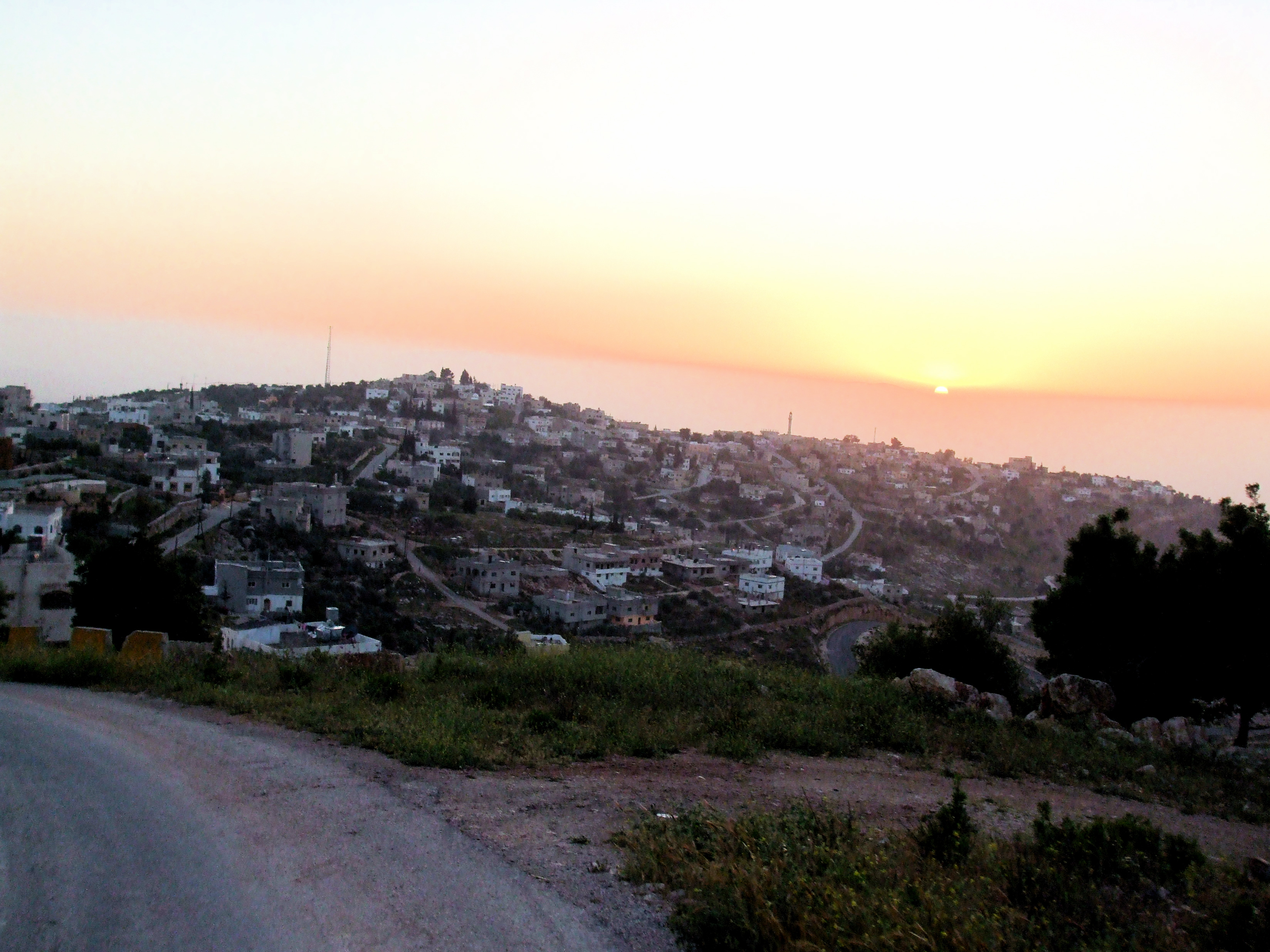 This is a view of Al-Wahadina, Jordan.